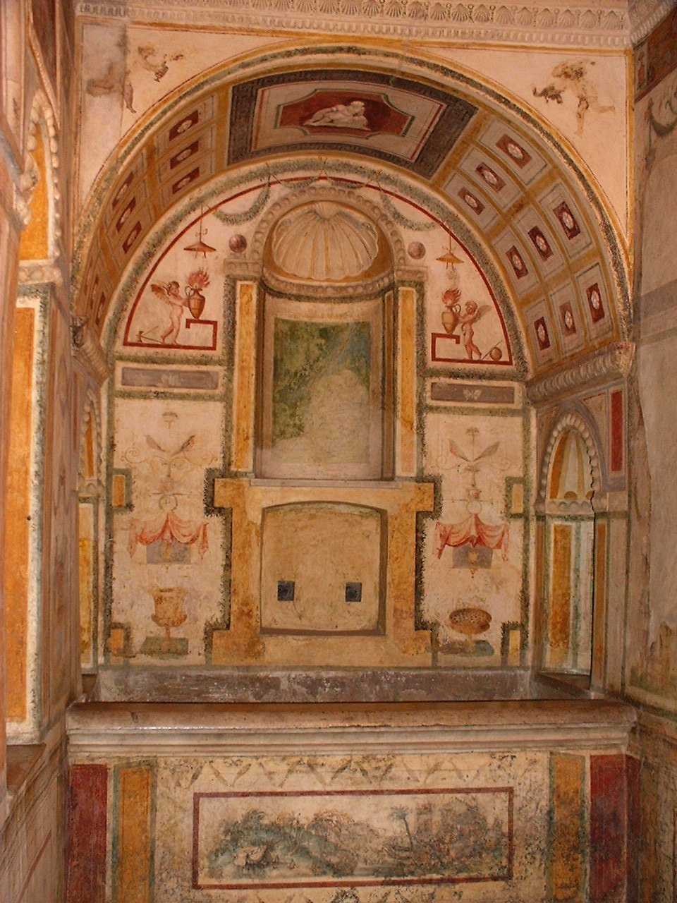 Bathroom of pope Clement VII in the Castel Sant'Angelo, Rome.